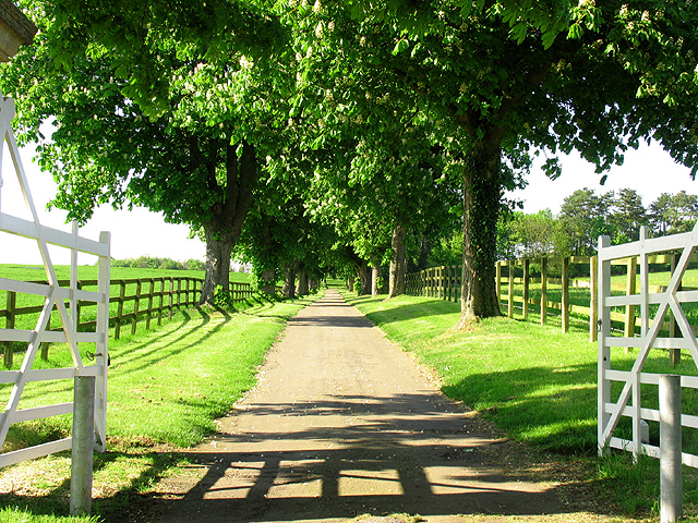 Entrance to Wyld Court Stud. This entrance is situated on the south eastern edge of the grid square and the driveway runs north east into the grid square. The picture was taken looking north east.